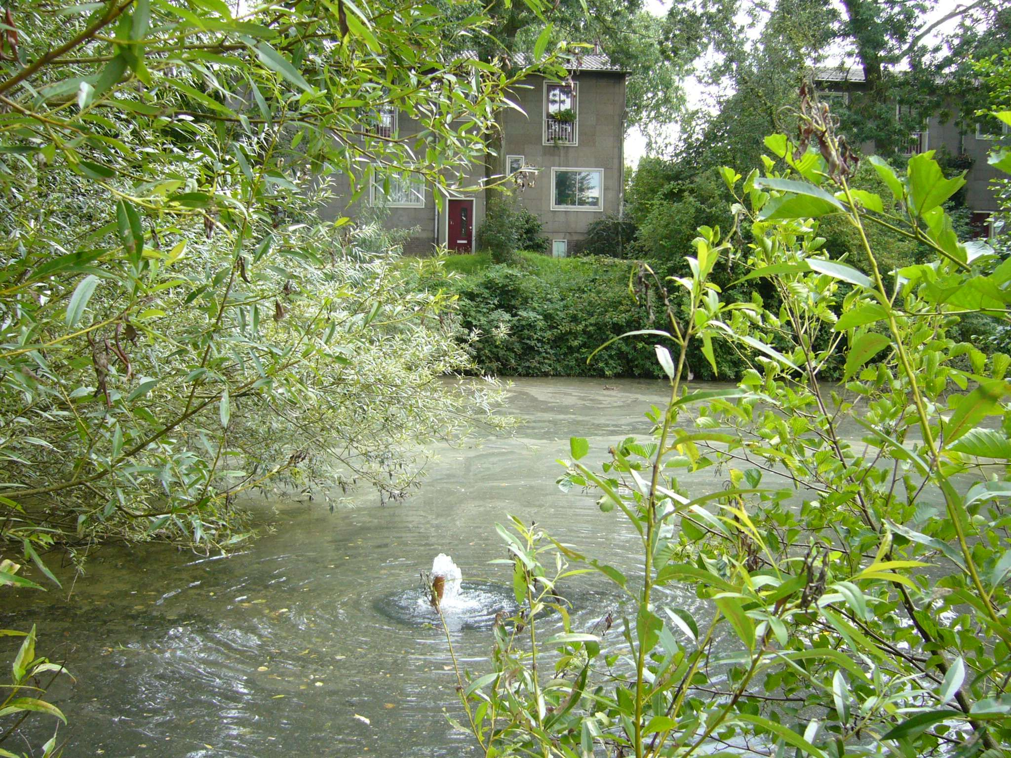 Marshland Hooglandsedijk, Amersfoort(Netherlands) with Artesian well; Location/Date Marshland Hooglandsedijk, Amersfoort, Netherlands, 2007/07/21 Taken with Panasonic Lumix DMC-FX3 Original picture 2048 x 1536 pixels Photographer Wilma Verburg Conditions Please inform the photographer before using this image outside Wikimedia.